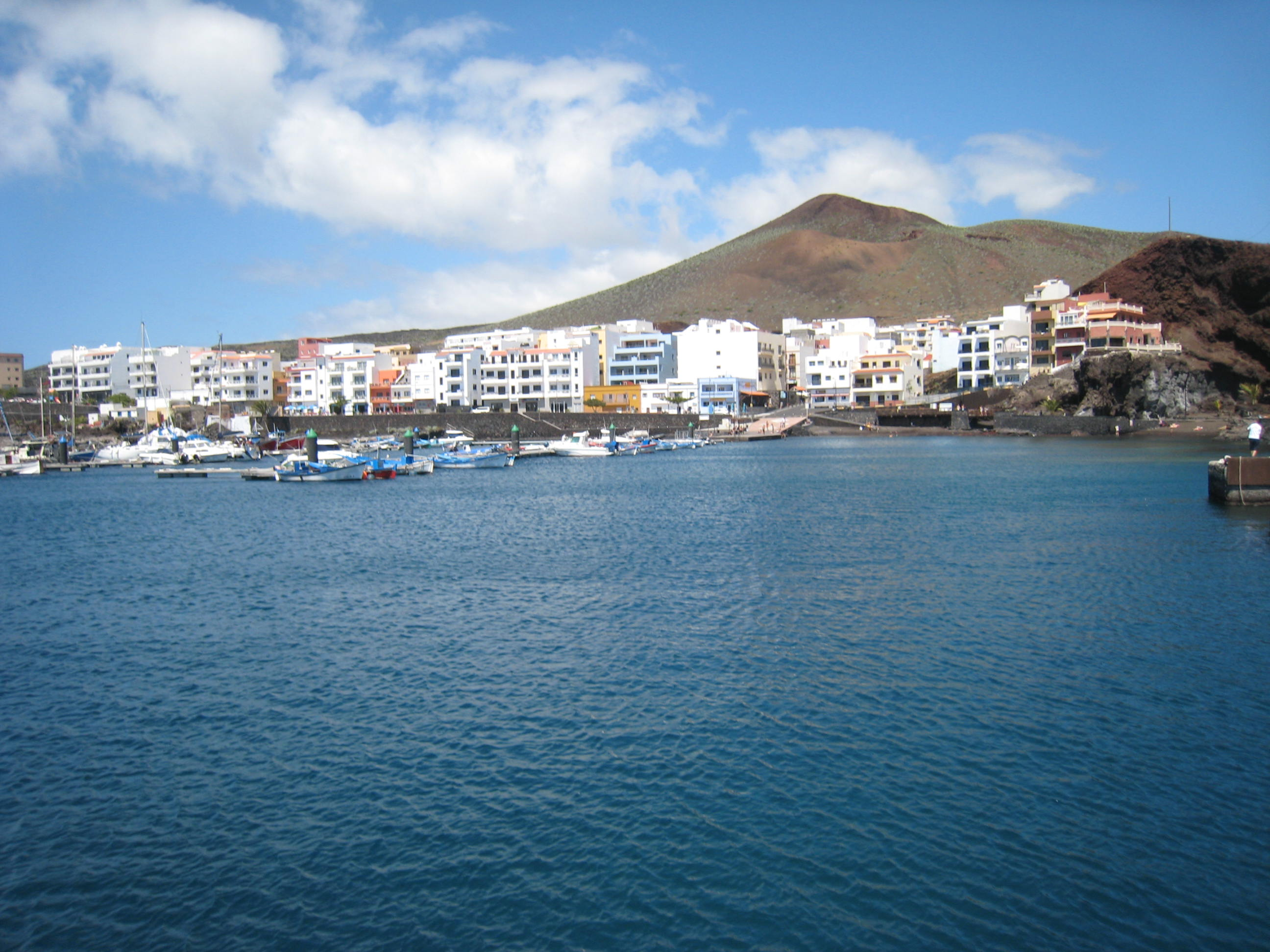 La Restinga, El Hierro, Spain